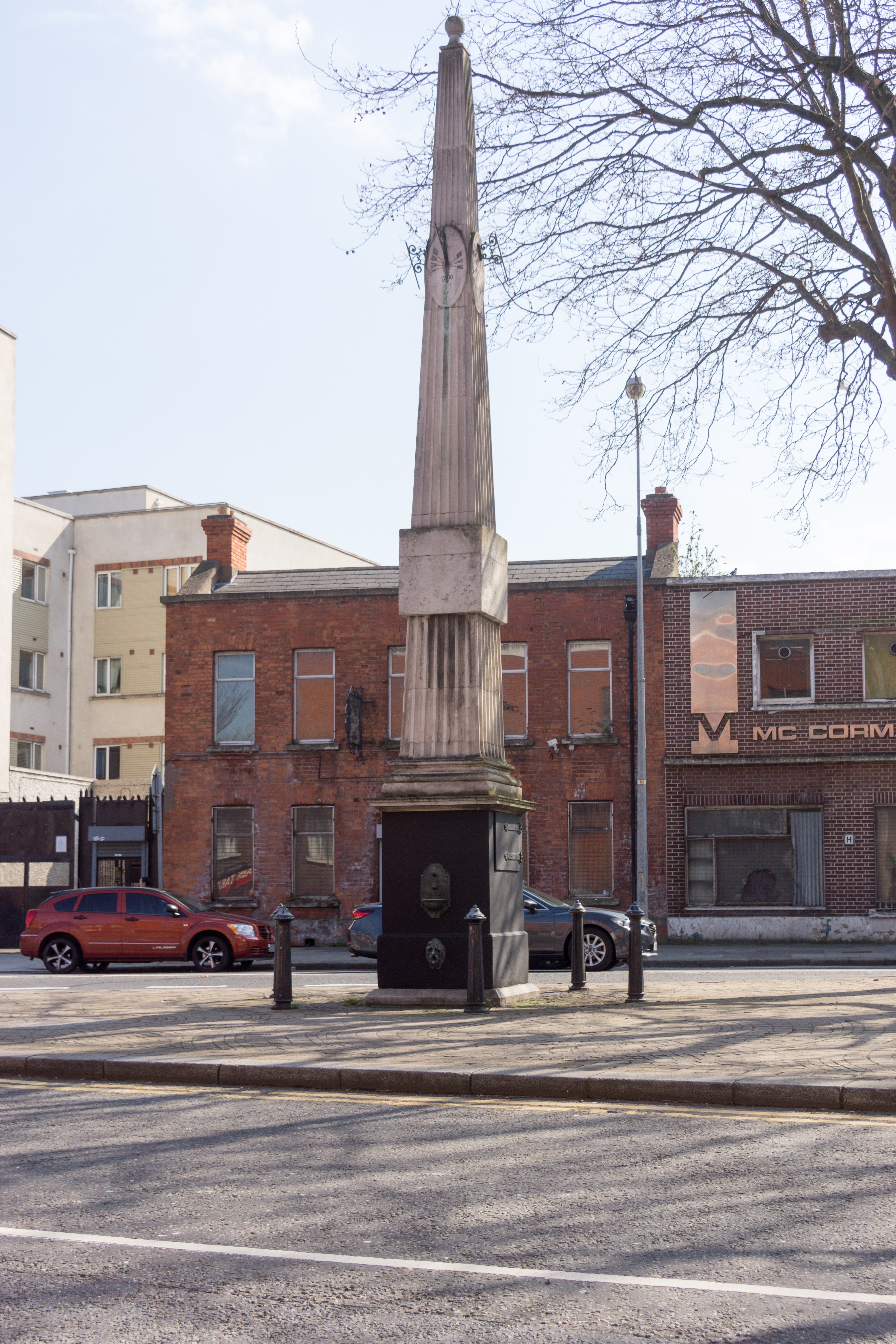 An obelisk with 4 sundials with a drinking fountain at its base, built in 1790 by the Duke of Rutland, the Lord Lieutenant. The architect Francis Sandys was responsible for a number of public fountains in Dublin.